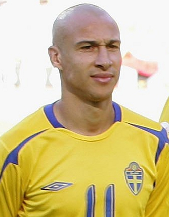 Henrik Larsson (Swedish national football team) before the FIFA World Cup match against Trinidad and Tobago on June 10, 2006